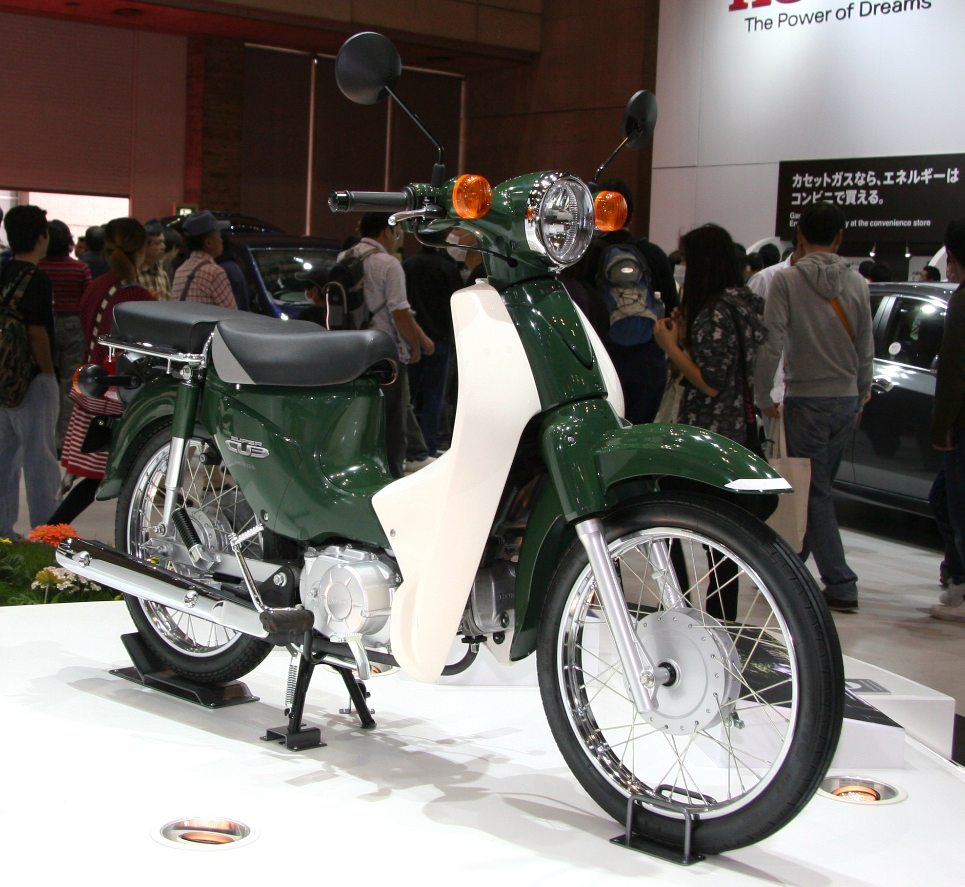 Honda Super Cub